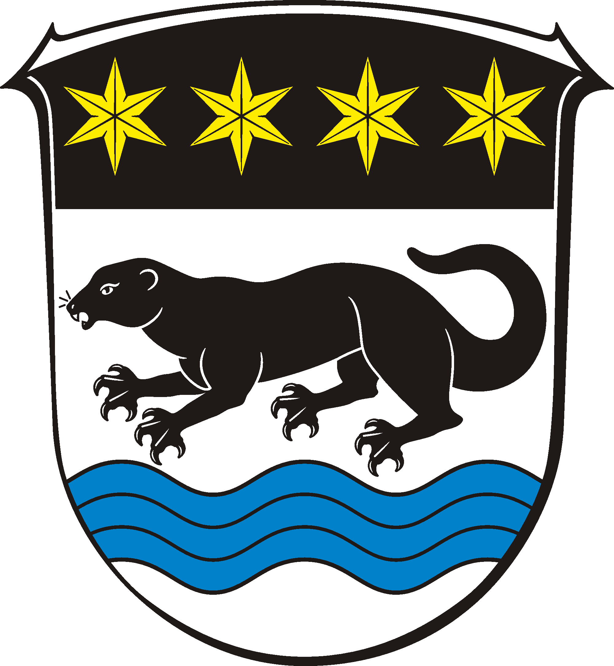 Coat of Arms of Ottrau